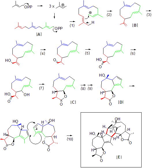 Fixes a previous error that misrepresented the position of the carbo-cation generated from farnesyl diphosphate.